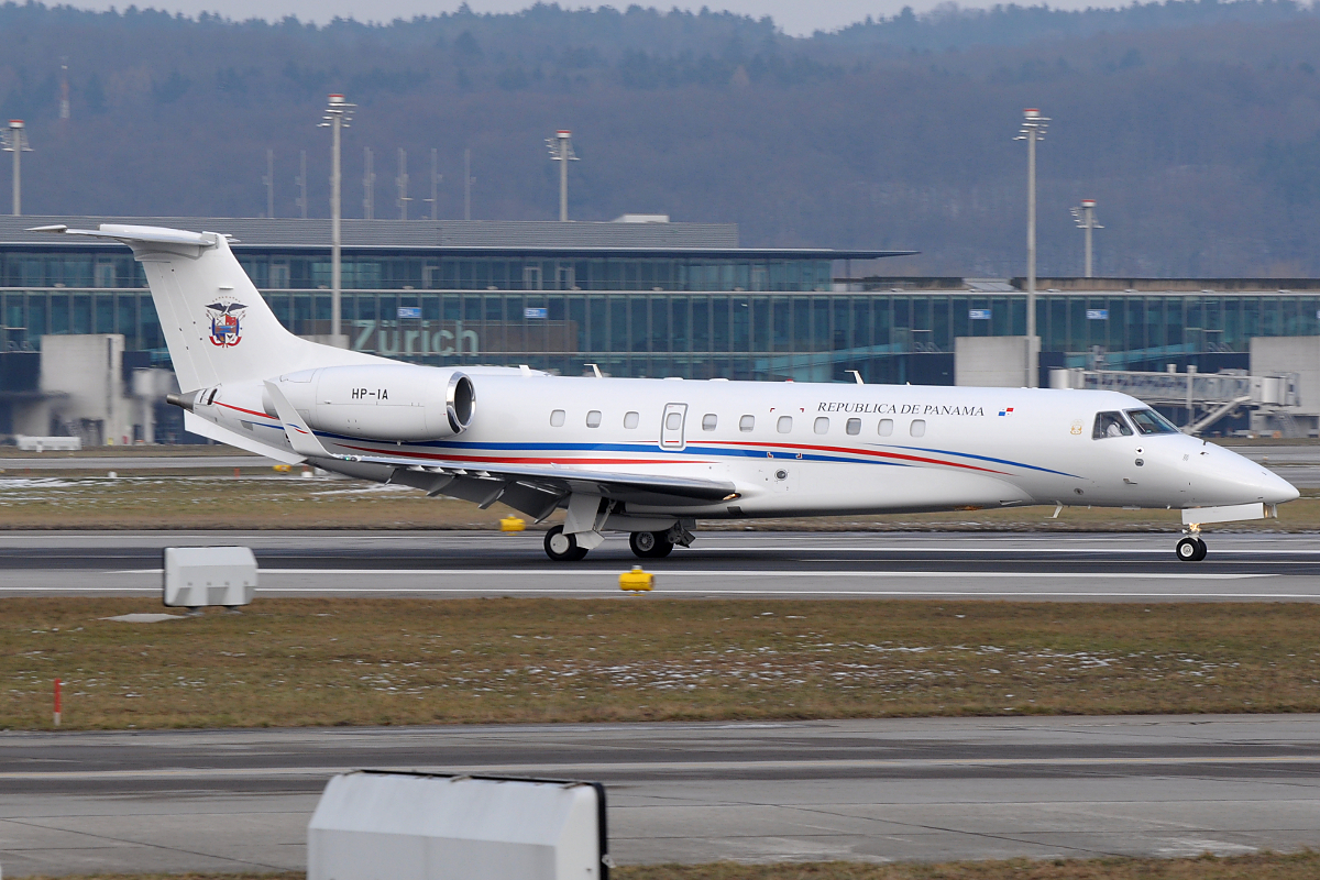 Panama Air Force Embraer ERJ-135BJ Legacy 600 with the World Economic Forum delegation on board landing in Zurich airport